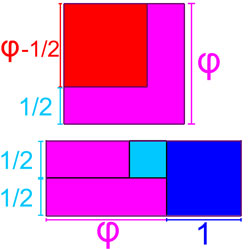 Determination of the golden ratio with Greek geometric algebra methods.